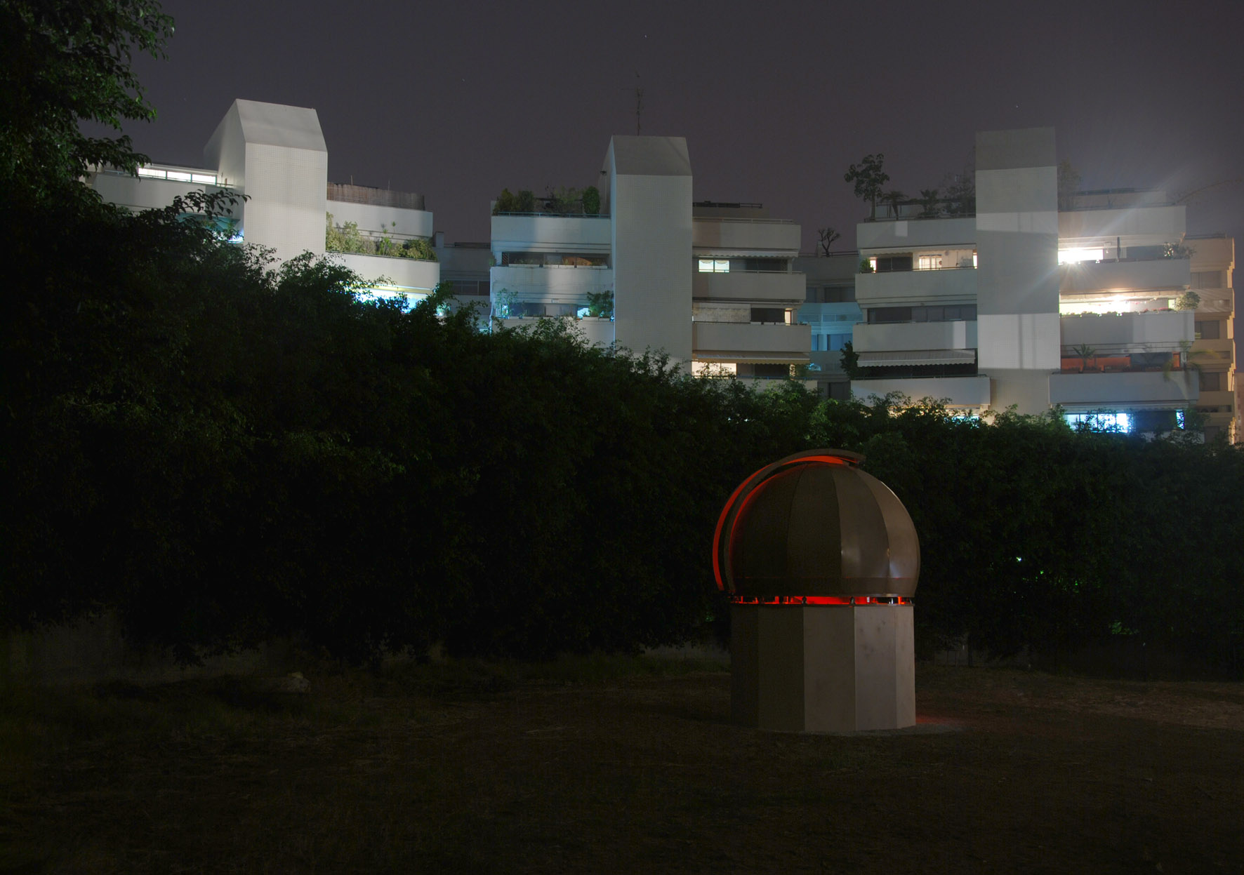 "Observatory" by Hillel Roman, installed at 2nd Herzliya Biennial, Israel 2009